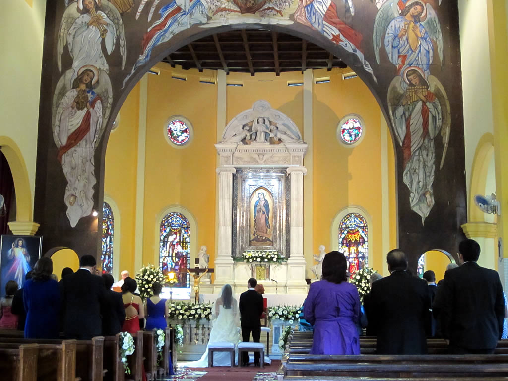 The Basilica of La Ceiba de Guadalupe is one of San Salvador's most popular wedding venues.